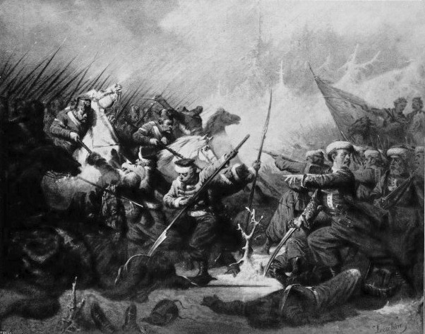 Skirmish of Polish zouaves during January Uprising